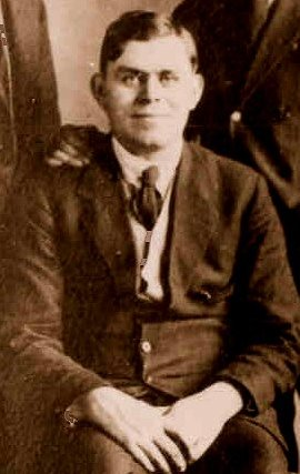 Seán Hogan, Dan Breen (seated), Ned O'Brien in Chicago USA